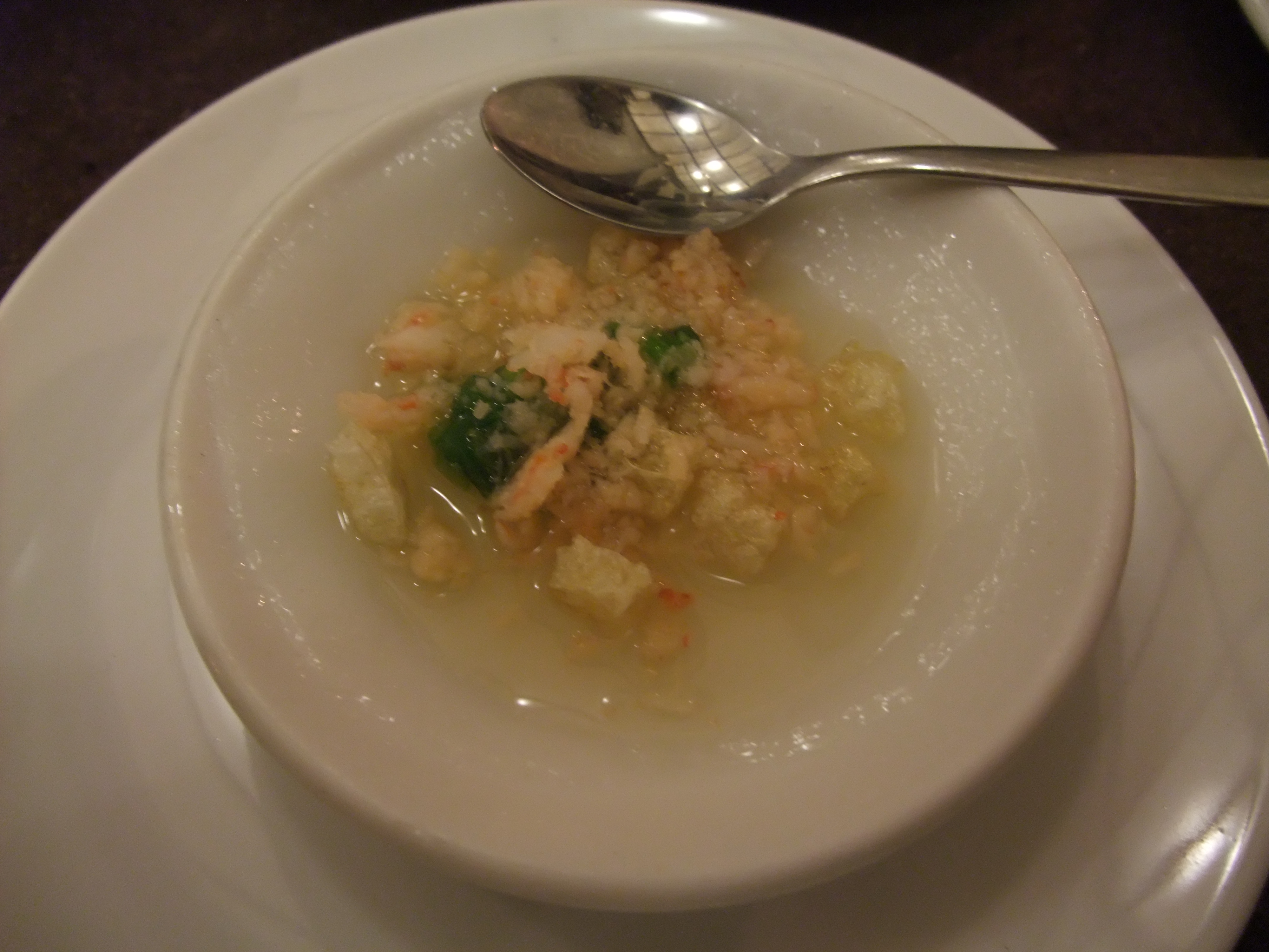 Tiny steamed rice cakes (chee cheong fun in mini cups) topped with minced shrimp served with special fish sauce Yummo Phu Xuan Restaurant 128 Dinh Tien Hoang St, Dakao, District 1, HCMC Tel: 8200329